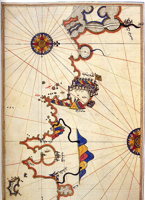 Marseilles in France on the Kitab-Ä± Bahriye (Book of Navigation) of Piri Reis This map is not that accurate and has serious deviations from the real world: On the left the mouth of the Rhone (it might have changed quite a lot since then) and the surrounding towns. Then in somewhat false orientation the chained harbour of Marsailles (truly the harbour opens in western direction), The cliff cape south of Marsailles is close to reality even if not perfectly correct. Attention: from now on several coast areas were not documented, most missing in modern terms of view is the famous natural Bay of Ciotat, but a few not that small islands are missing as well, further Cassis, La Ciotat, Saint-Cyr-sur-Mer and Bandol might be missing as well. Then the drawn harbour and town that opens to west might be some village in the area of Sanary-sur-Mer/Six-Fours-les-Plages. The harbour of Toulon is relatively well depicted including that protective peninsula Le Mourillon and the smaller bay on the peninsula of Saint-Mandrier-sur-Mer with the exception that it all opens to the east. The cape of Giens in combination with the island of Porquerolles is again relatively well recognizable including some minor mis-placed and mis-oriented island that a sailing boat would normally pass in close distance. Finally in the east the town of L'Ayguade and the former saline area of Les Salins d'Hyeres could be identified. All above is stated under the aspect of not being a translation from the original card material inscriptions but from comparison with reference maps and knowledge of the true location.